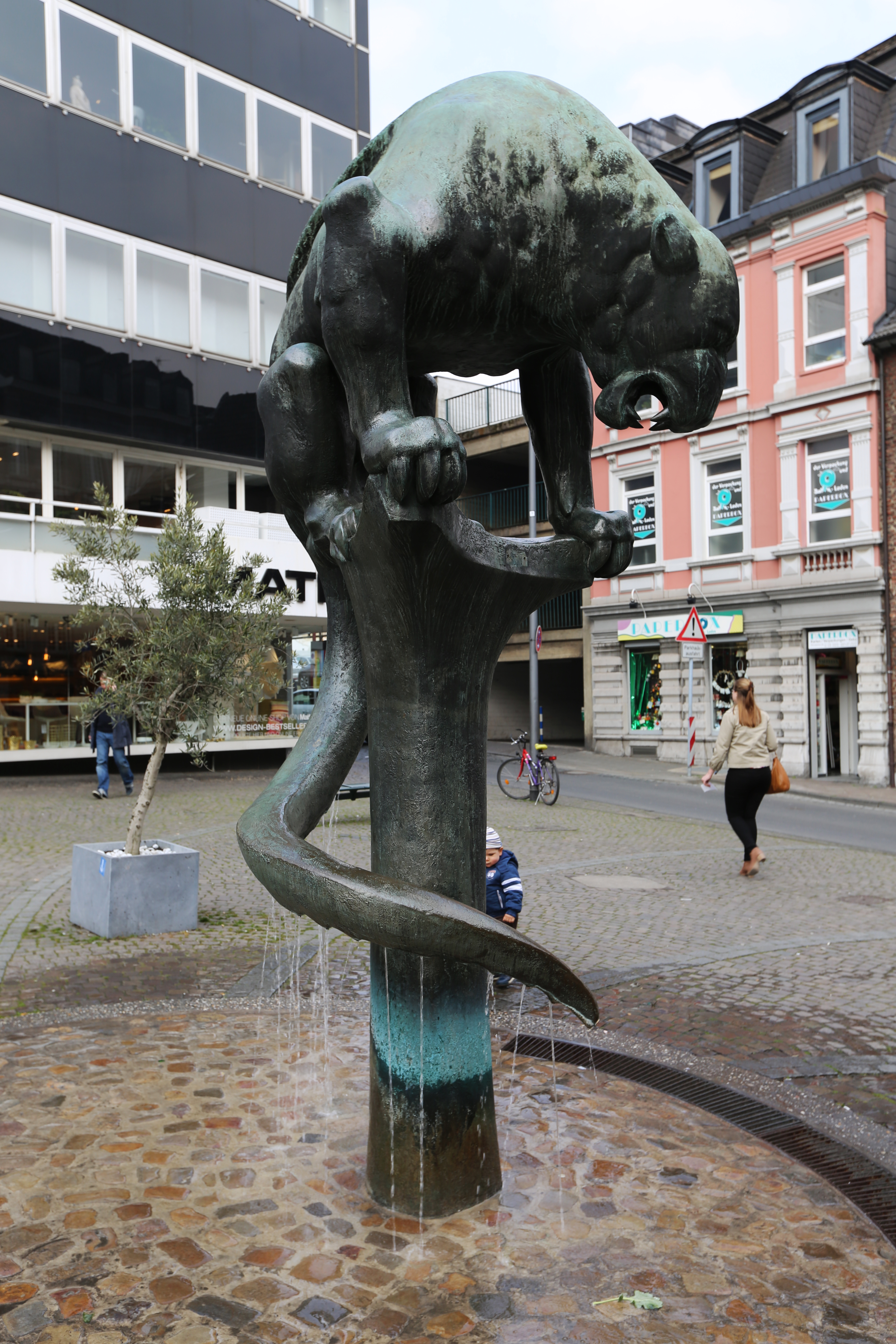 Fountain in Aachen with a fabulous creature named “Bahkauv “